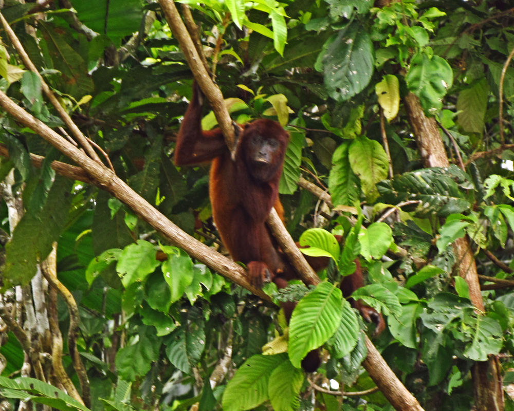 Purús Red Howler Monkey (Alouatta puruensis), female, Tambopata Park, Peru